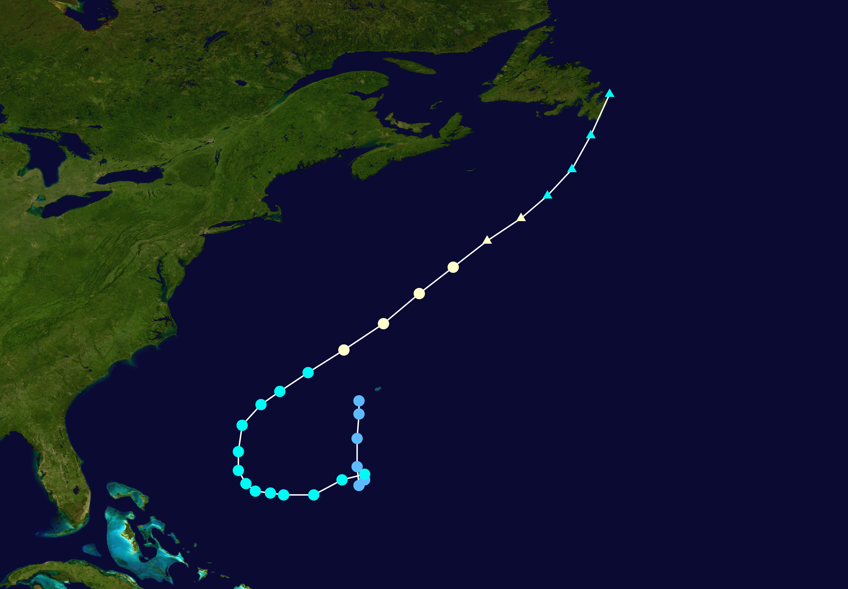 Hurricane Frieda (1957) track. Uses the color scheme from the Saffir-Simpson Hurricane Scale.